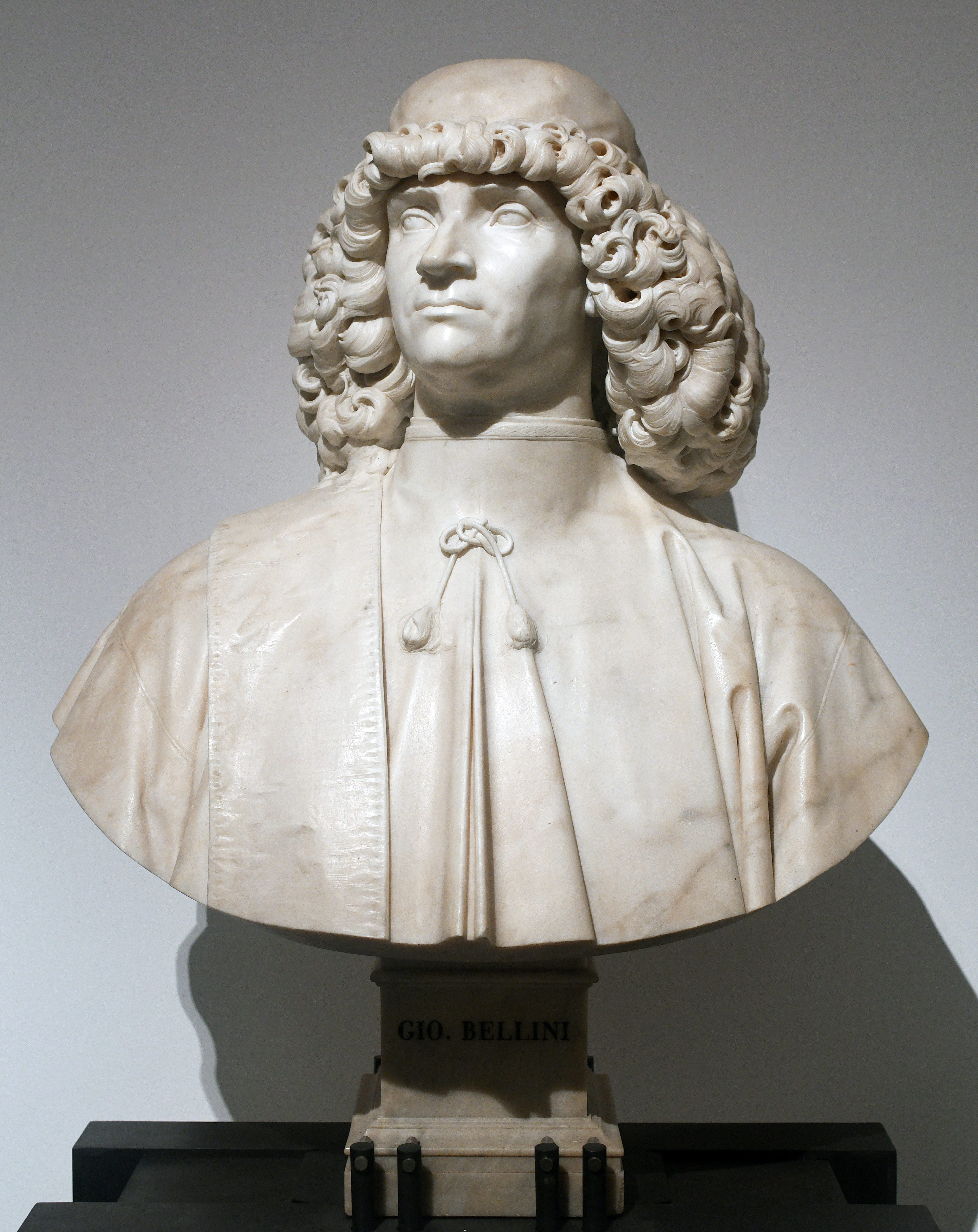 Bust of Giovanni Bellini in Venice